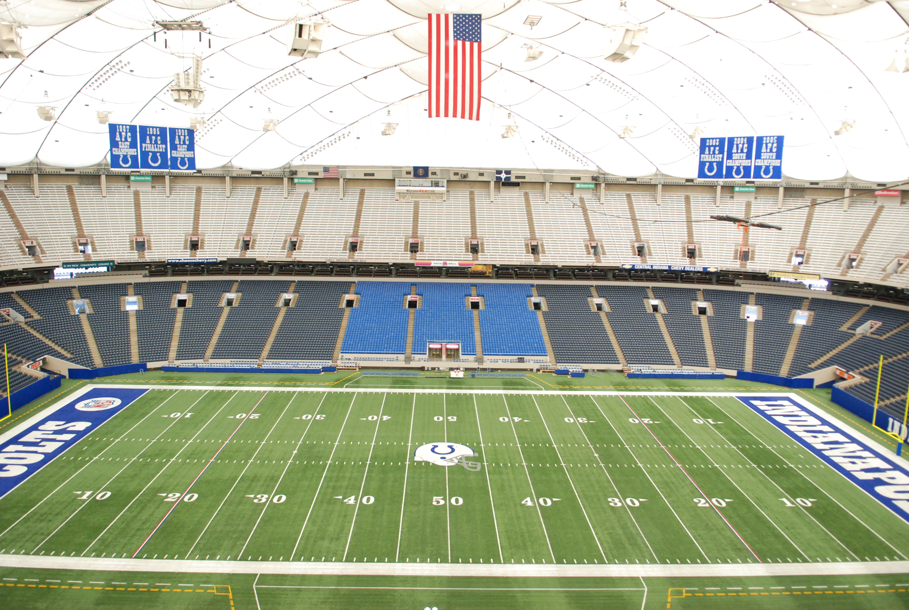 Interior of the Hoosier (RCA) Dome